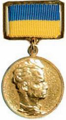 Medal of Ukraine State Prize winner Alexander Dovzhenko